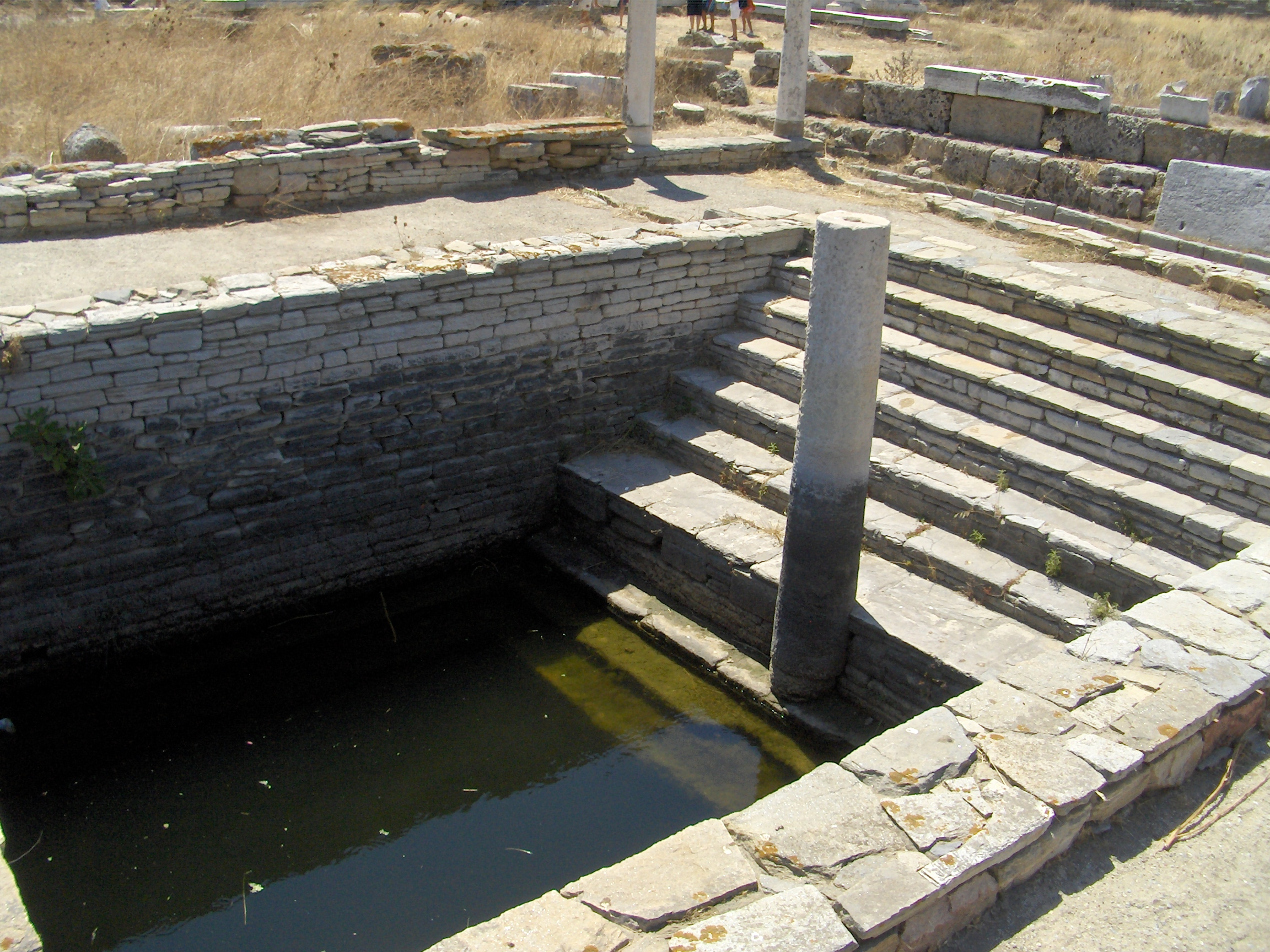 Ruins at the island of Delos.